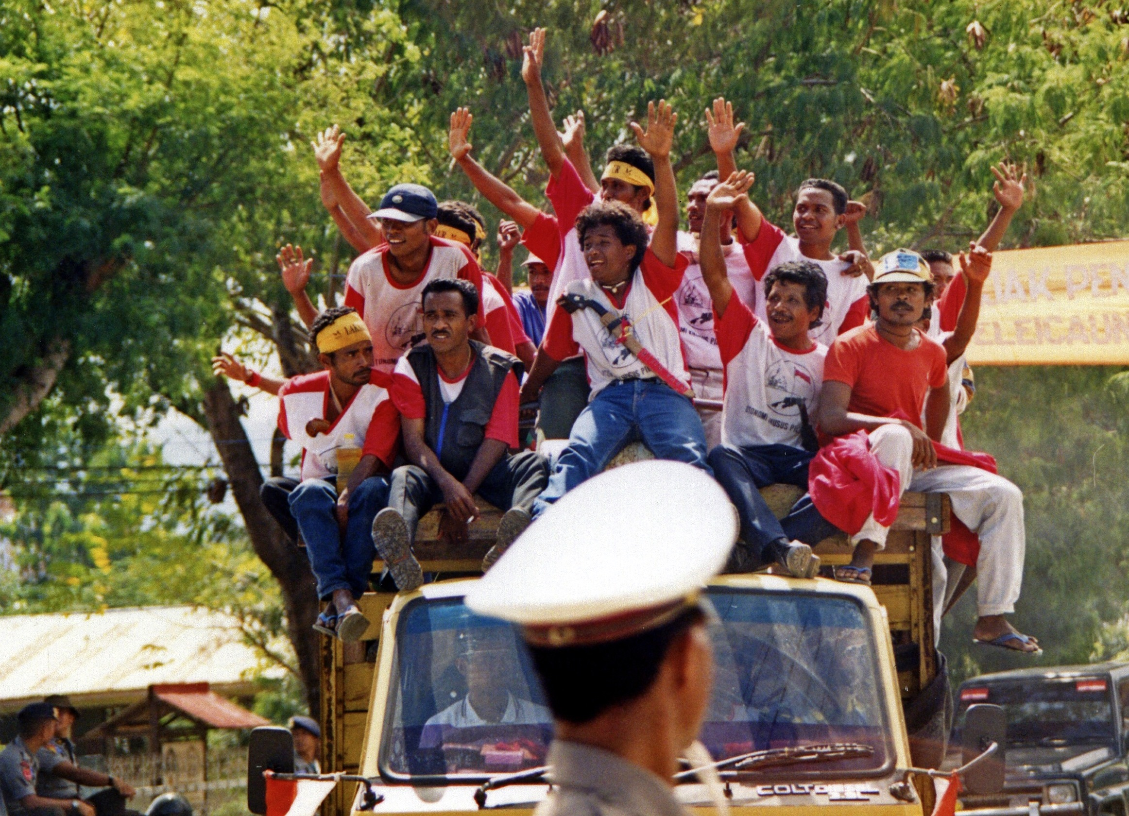 Campaign of Laksaur Militia in East Timor 1999